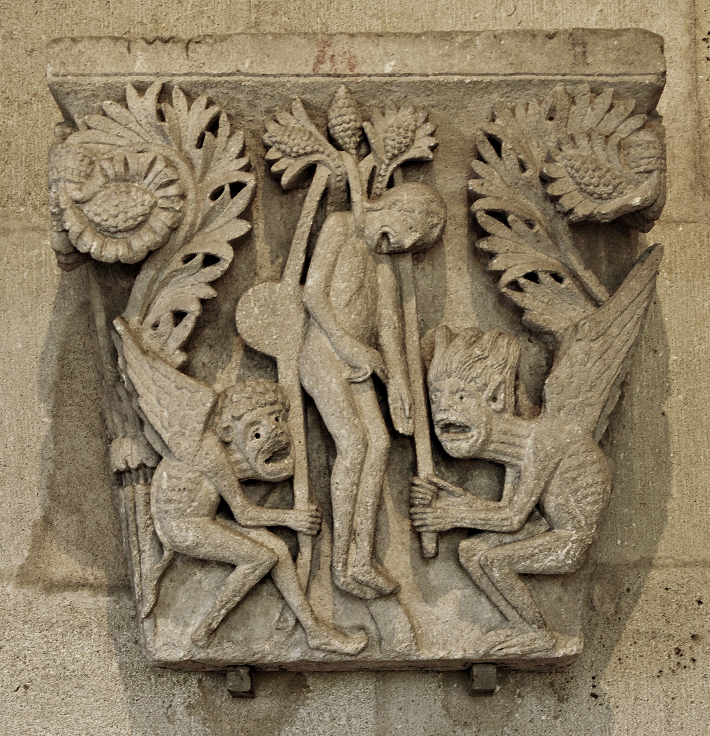 Judas. Capital from Autun cathedral. Sculptor: Gislebertus